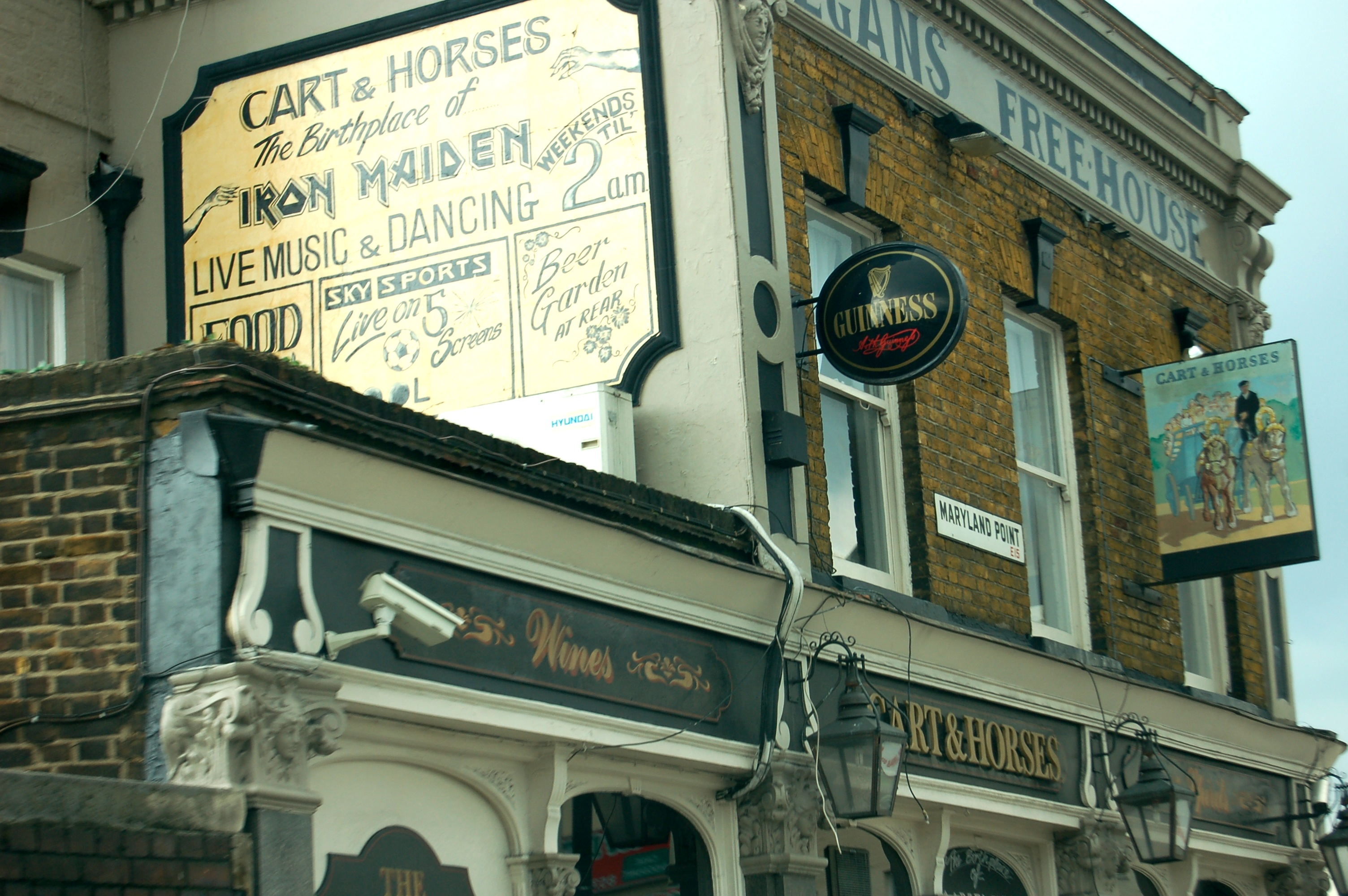 An exterior photograph of the Cart and Horses Pub 1 Maryland Point, Stratford, London, E15 1PF, East London, UK. The venue is widely considered to be the birthplace of the rock band Iron Maiden.